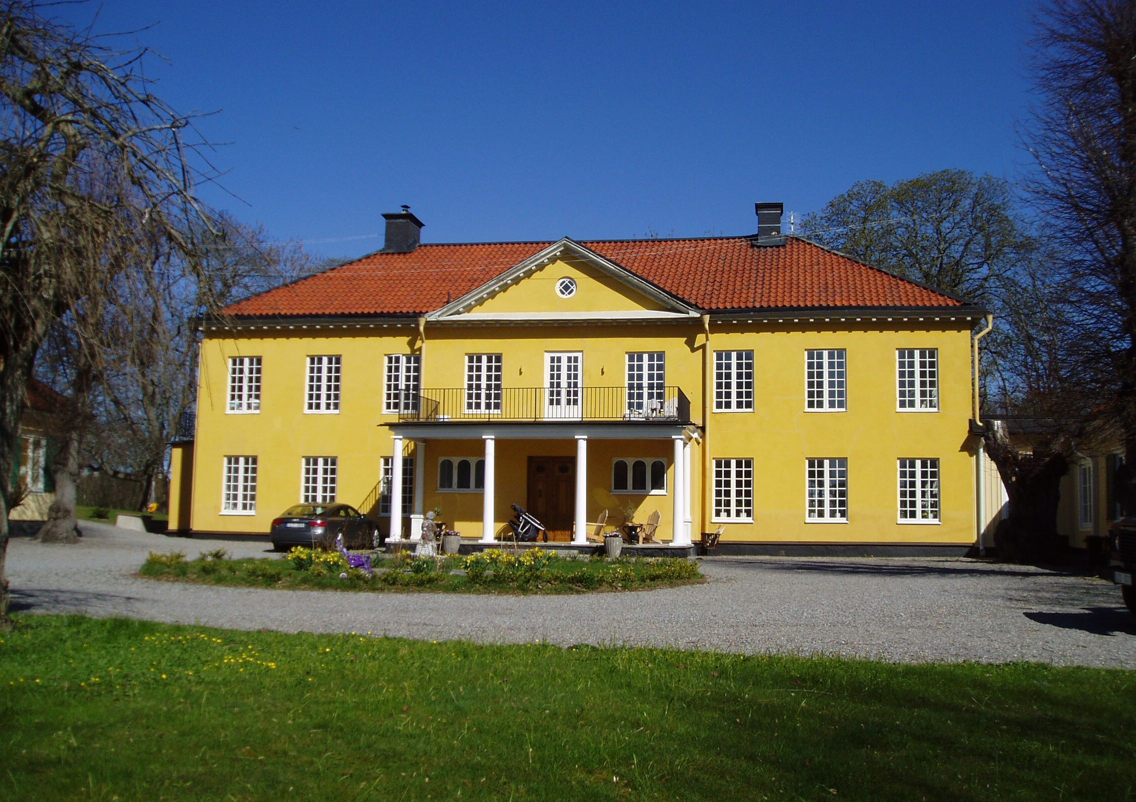 Hersby mansion, Lidingö municipality, Sweden